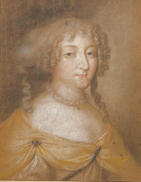 Portrait d'Athénaïs de Rochechouart, marquise de Montespan (1641-1707), maîtresse de Roi